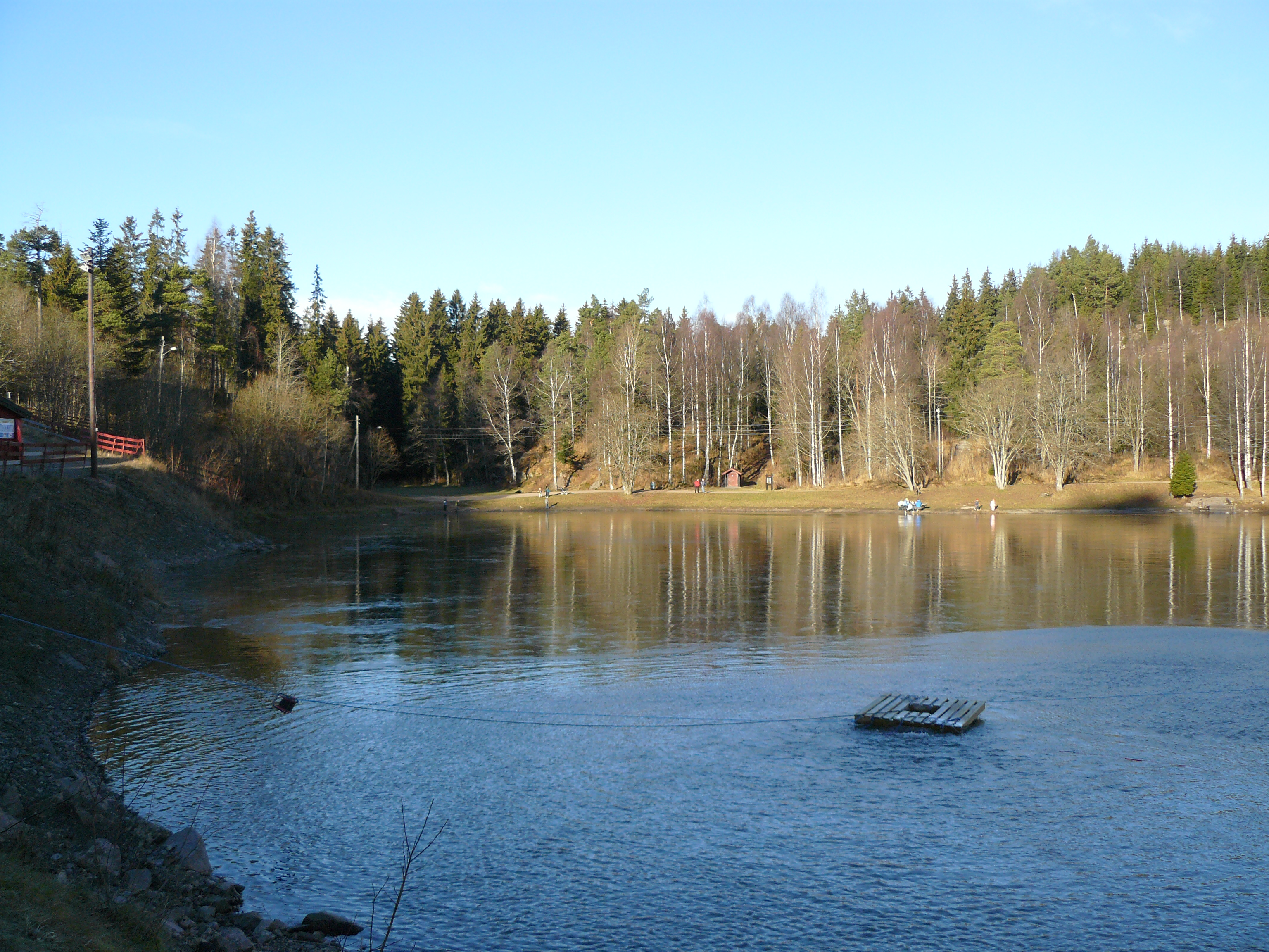 Trollvann in Lillomarka, Oslo